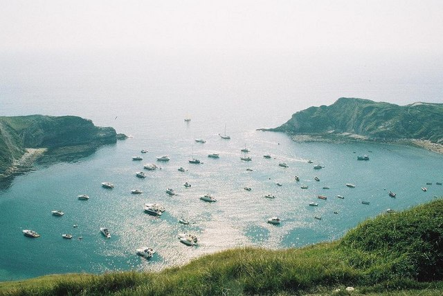 West Lulworth: Lulworth Cove Looking down on the Cove from the clifftop path that goes right round it.